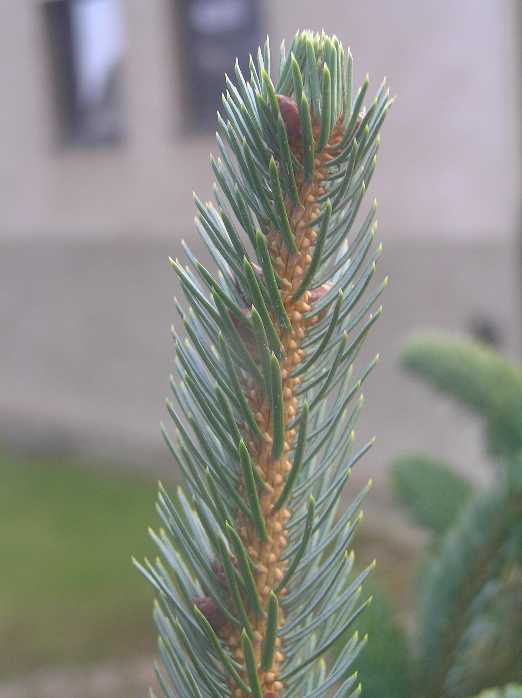 Picea alcoquiana, cultivated in the Czech Republic, arboretum Žampach